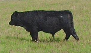 Young Eringer bull on alp pasture (Engstligenalp)